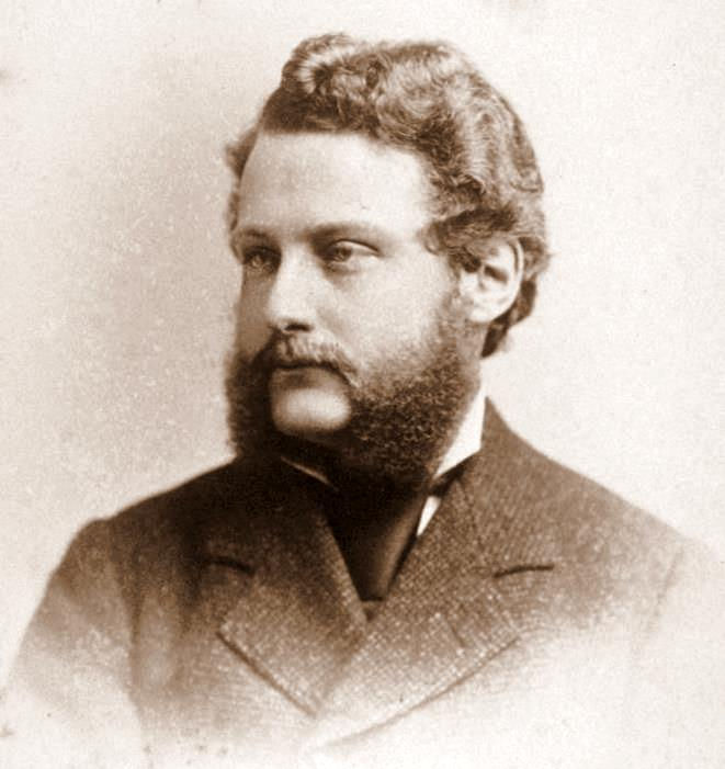 [Inscribed] "Yours very truly, Geo. C. Pardee, '79."